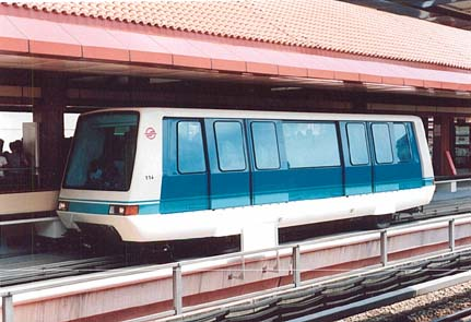 A carriage on the Bukit Panjang LRT line waiting at the Choa Chu Kang Station.